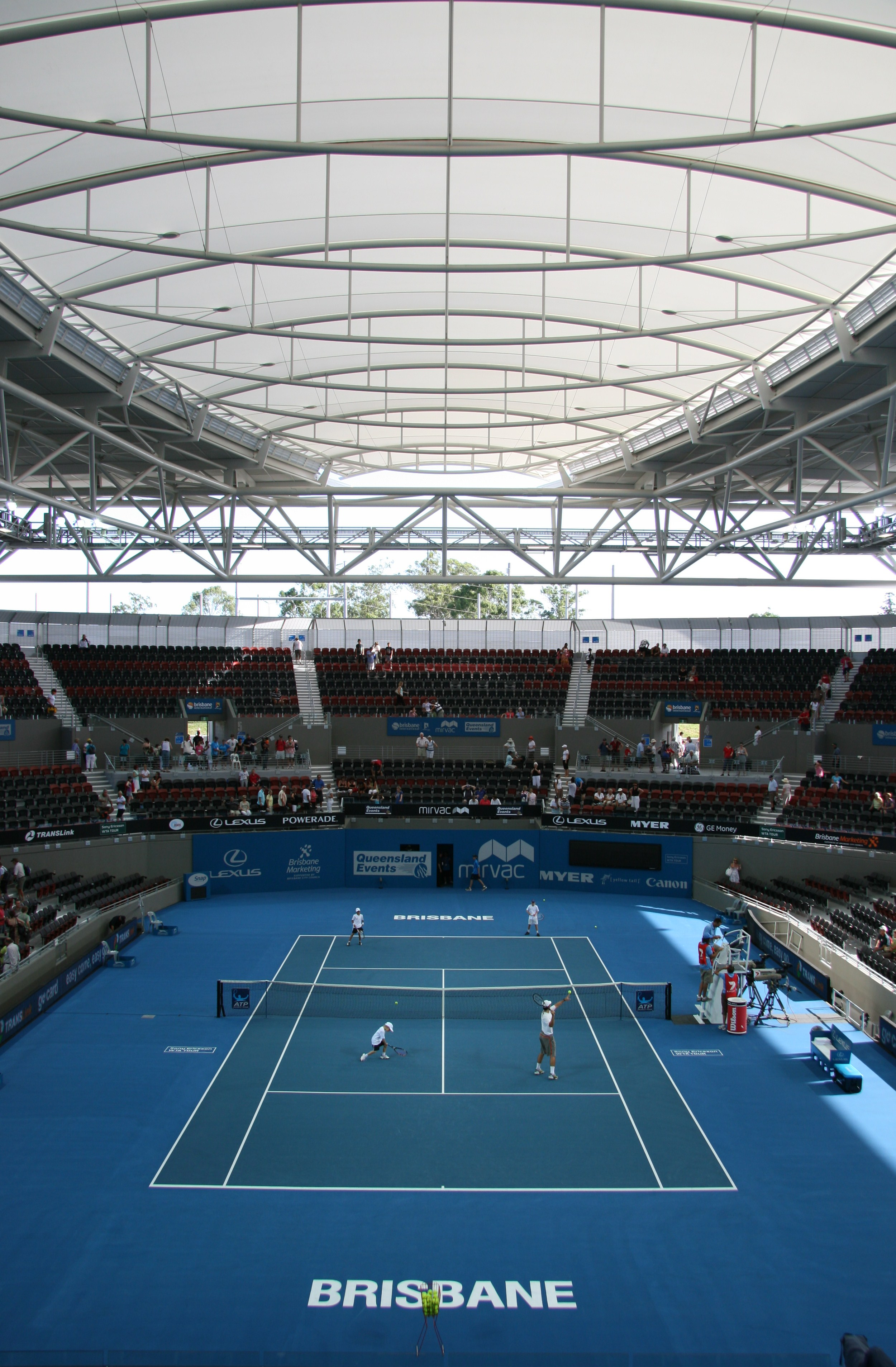 Queensland Tennis Centre, Pat Rafter Arena site of the Brisbane International